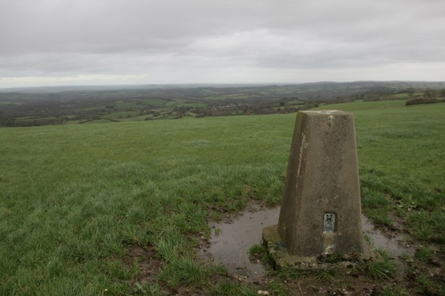 Green Hill trig point